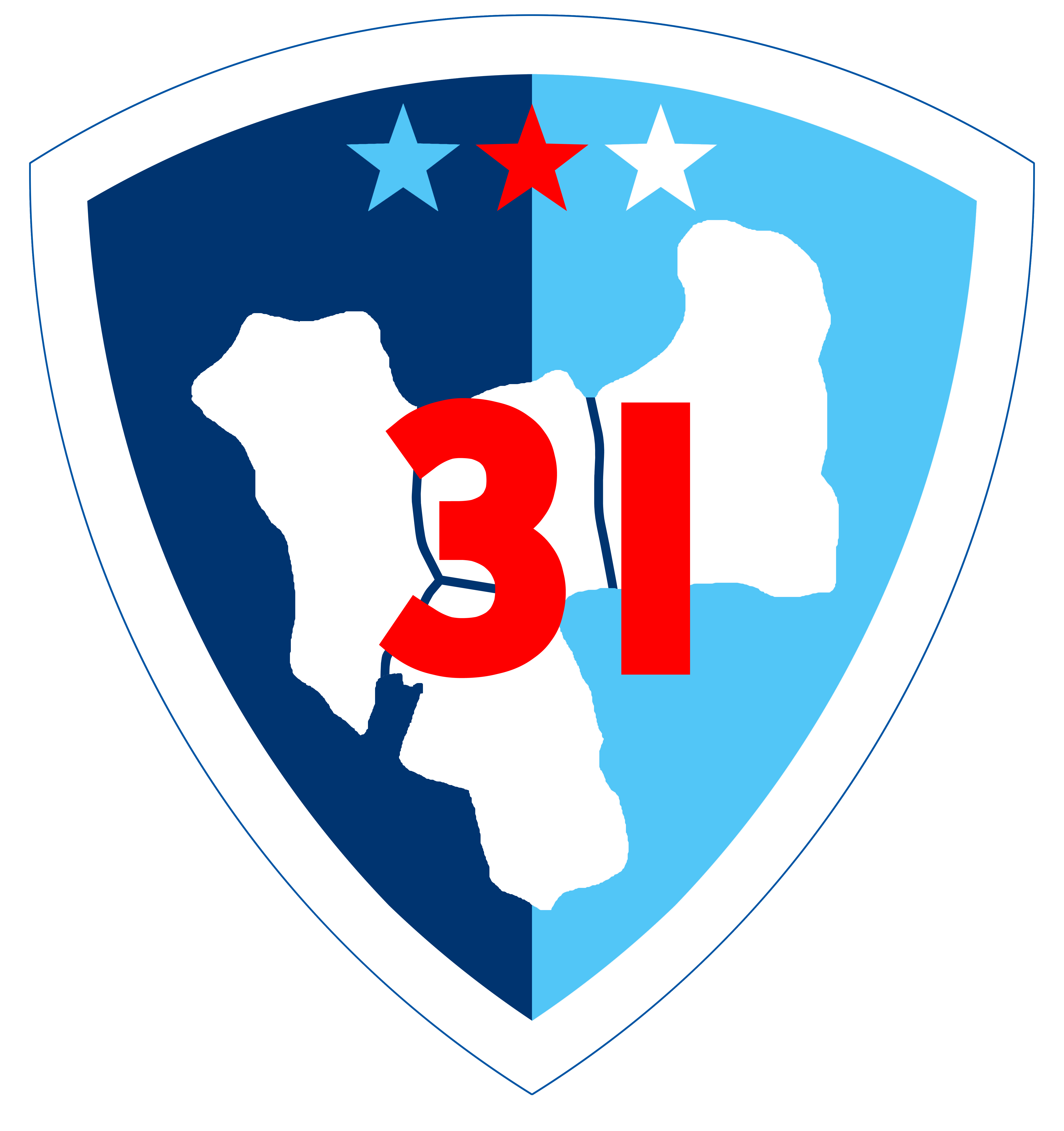 31st Philippine Division emblem from 1941-42, possibly not developed until late in that period or just after; color versions of this are a matter of record, and bronze version(s) of these emblems are seen on monuments around the Philippines.